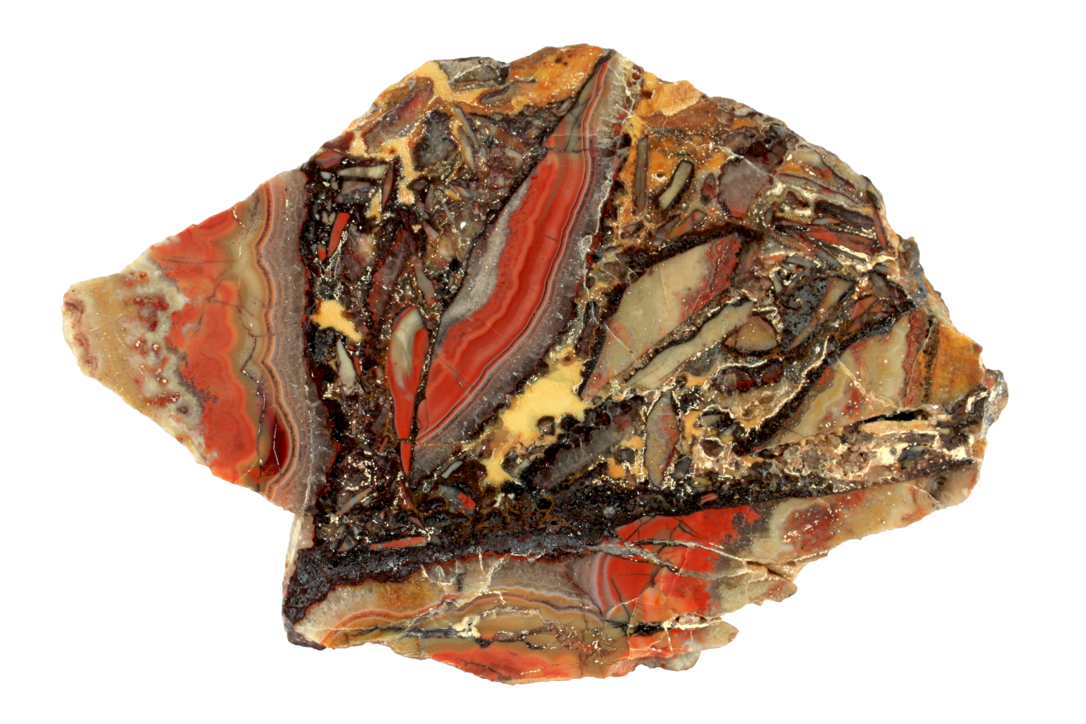 Agate breccia from Schwarzwald, Germany. The width of the sample is 12 cm.